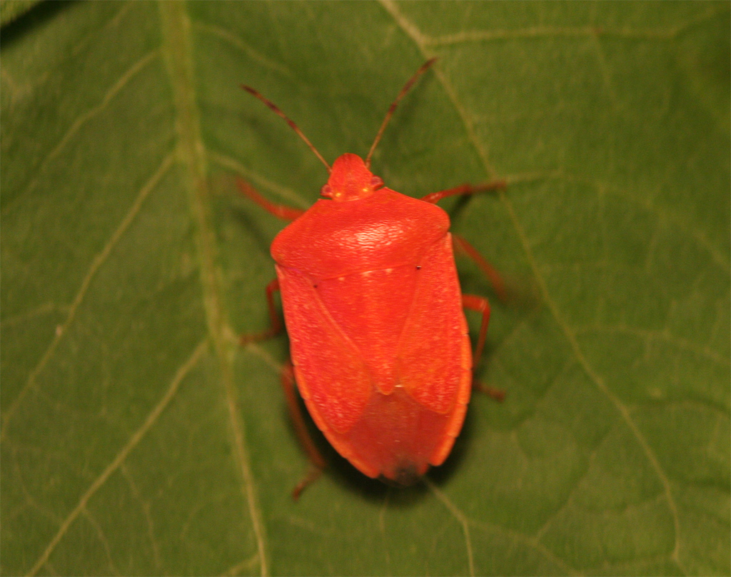 The rare "golden" color morph of the southern green stink-bug (Nezara viridula f. aurantiaca), captured near Cornuda, Italy.